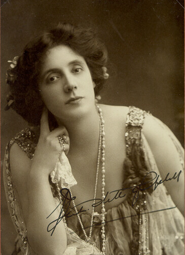 Photographed in the United States pre 1897 Philip H. Ward Collection of Theatrical Images, 1856-1910